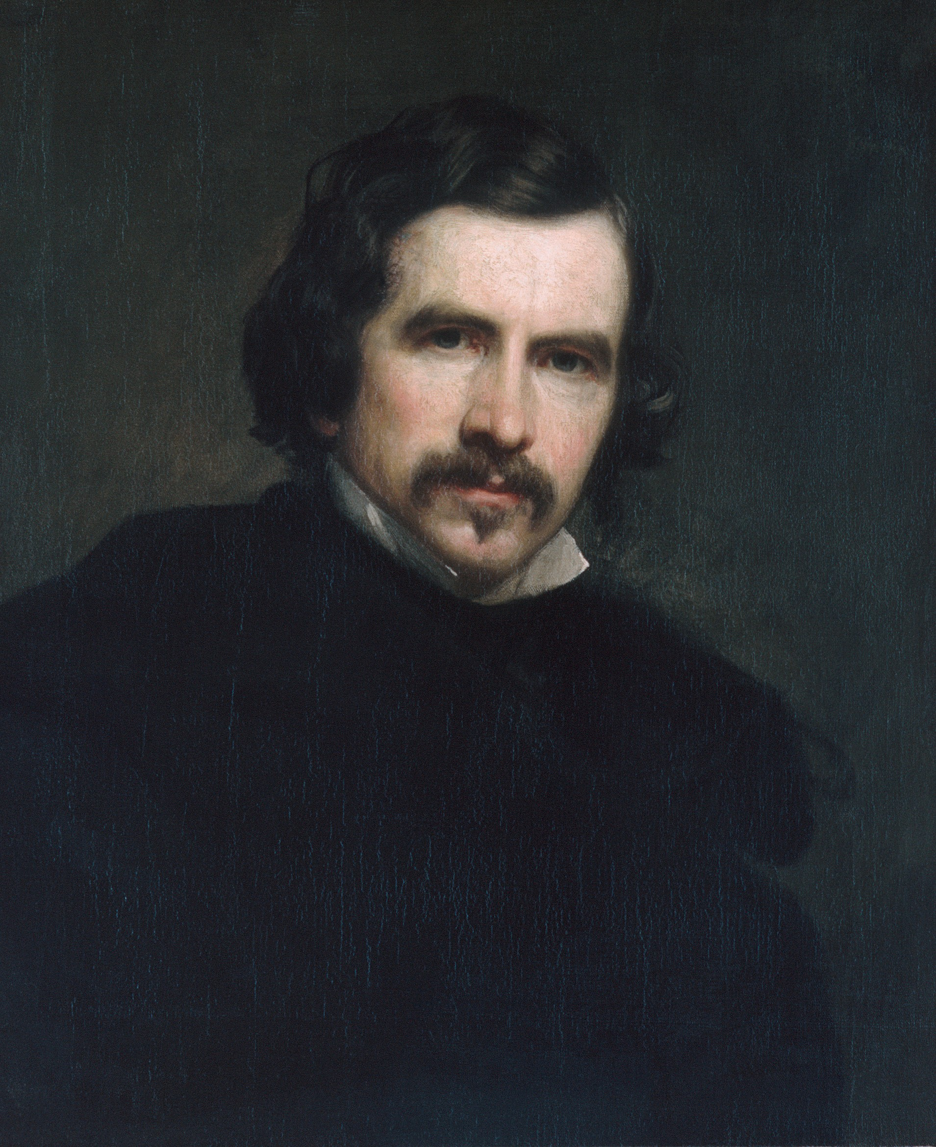 Portrait of the Artist Artist: George P. A. Healy (1813–1894) Date: 1851 Medium: Oil on canvas Dimensions: 24 1/2 x 20 1/2 in. (62.2 x 52.1 cm) Classification: Paintings Credit Line: Gift of Samuel P. Avery, 1891